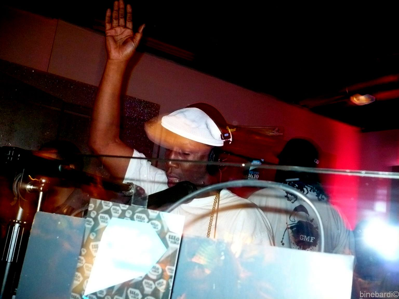 Grandmaster Flash live